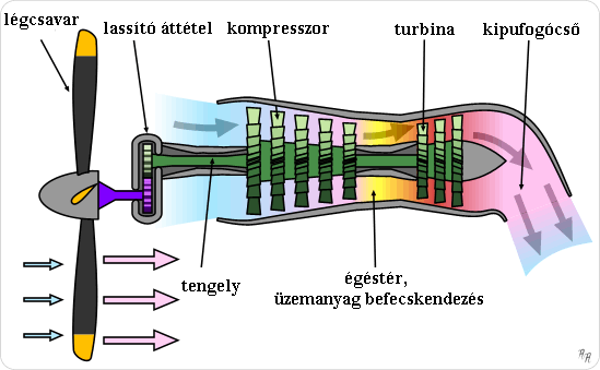 Schematic diagram of the operation of a turboprop engine. Drawn using XaraXtreme by Emoscopes 21:54, 15 December 2005 (UTC) Translated by TM123